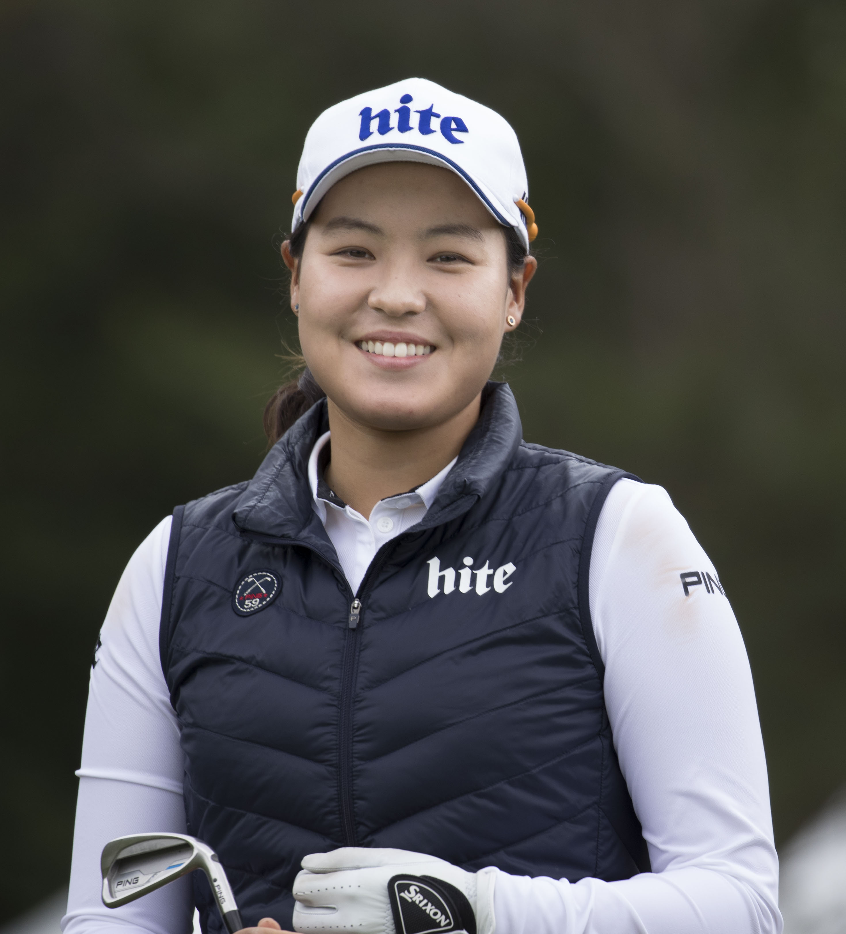 Korean golfer Chun In-gee at the LPGA Kingsmill 2016